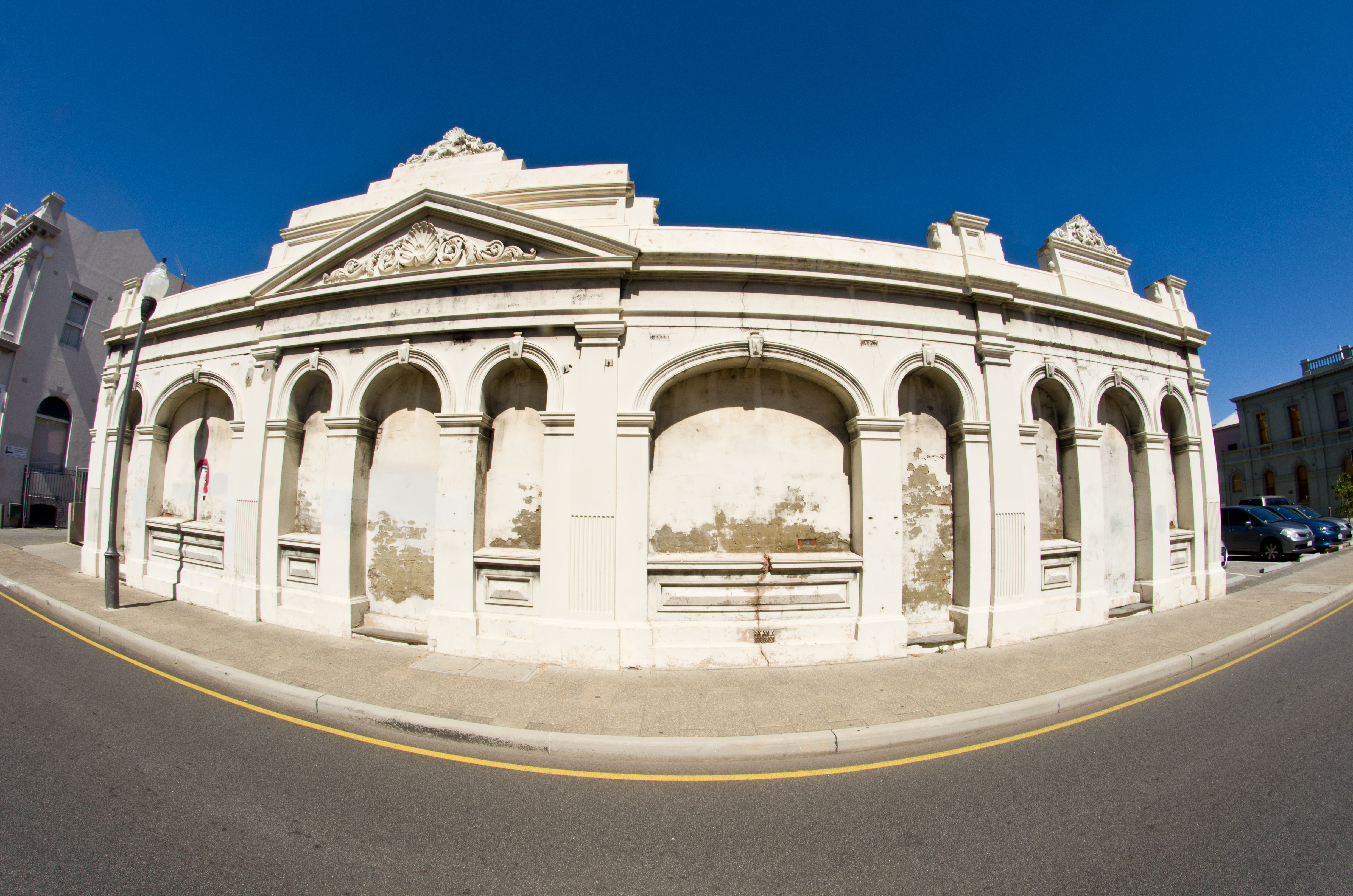 Taken for articles needing images relating to Freopedia's assistance with the Piccolo Exhibition at the Moores Building Oct-Nov 2013 Reckitt & Cloeman Facade cliff street Fremantle